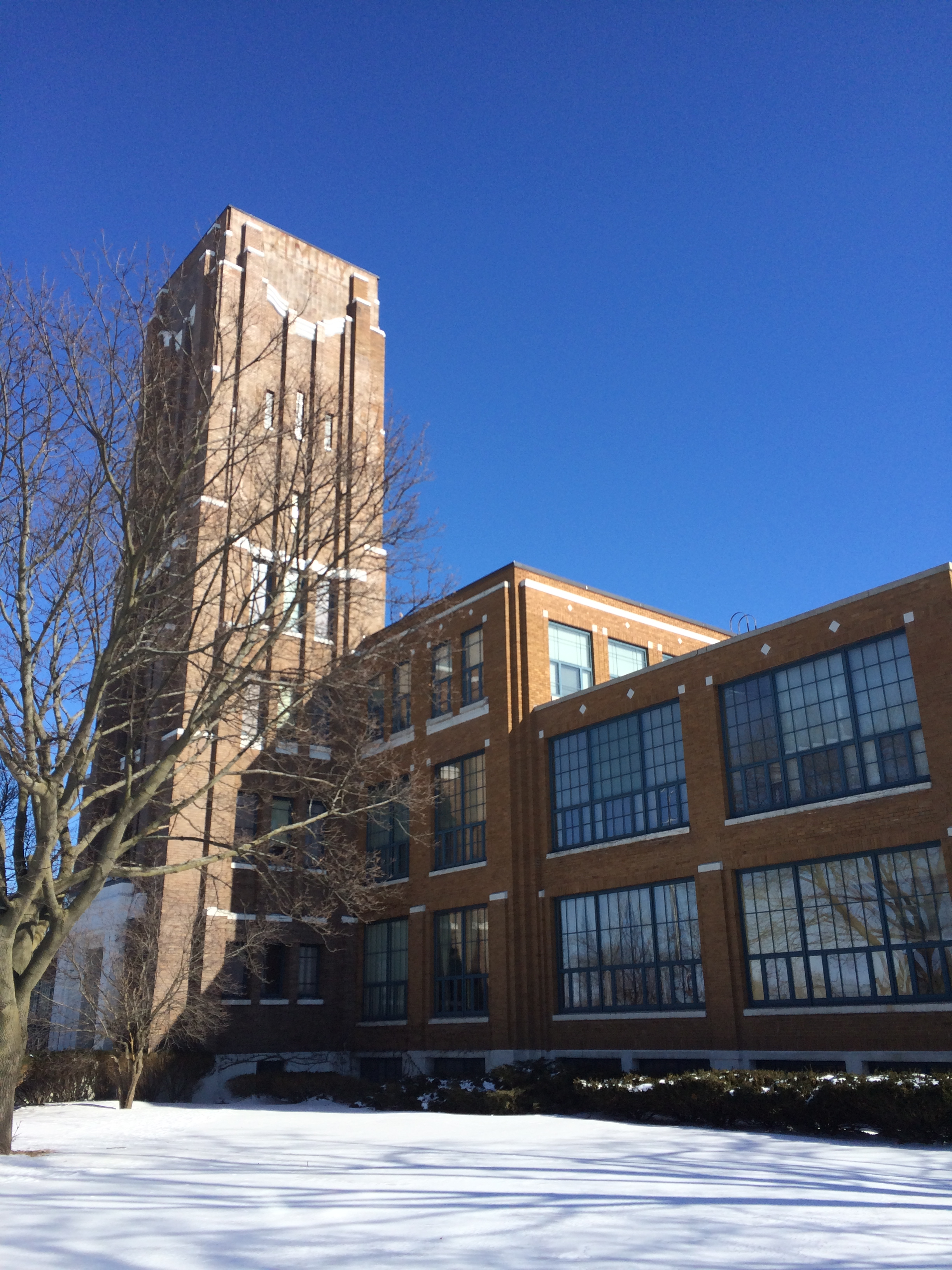 Amity Leather Products Company Factory Site is now an office center and residential complex.